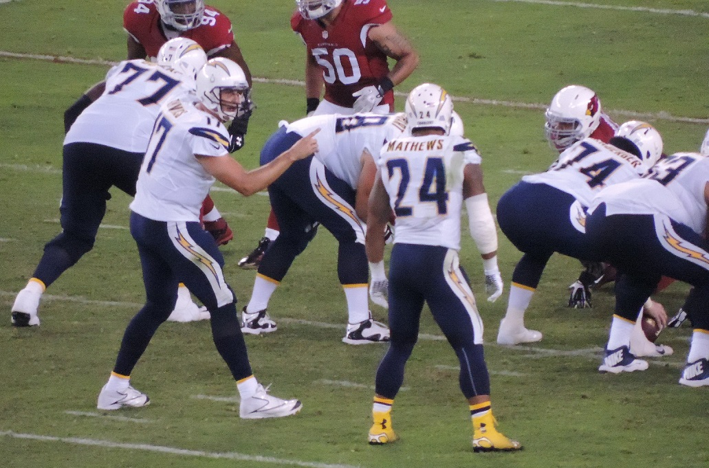 Philip Rivers and Ryan Mathews in 2014 season debout